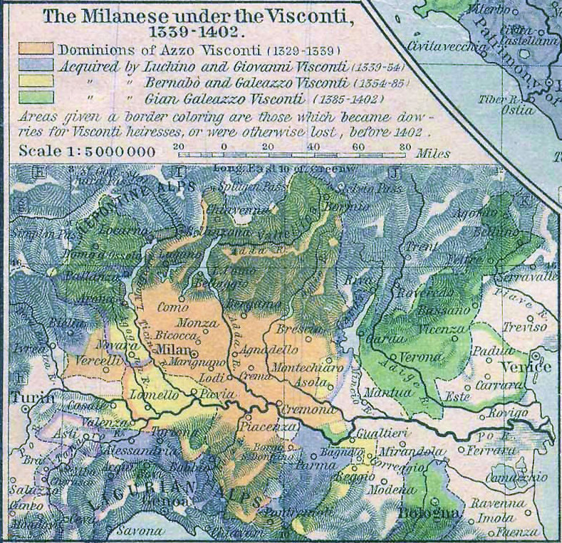 The Milanese under the Visconti